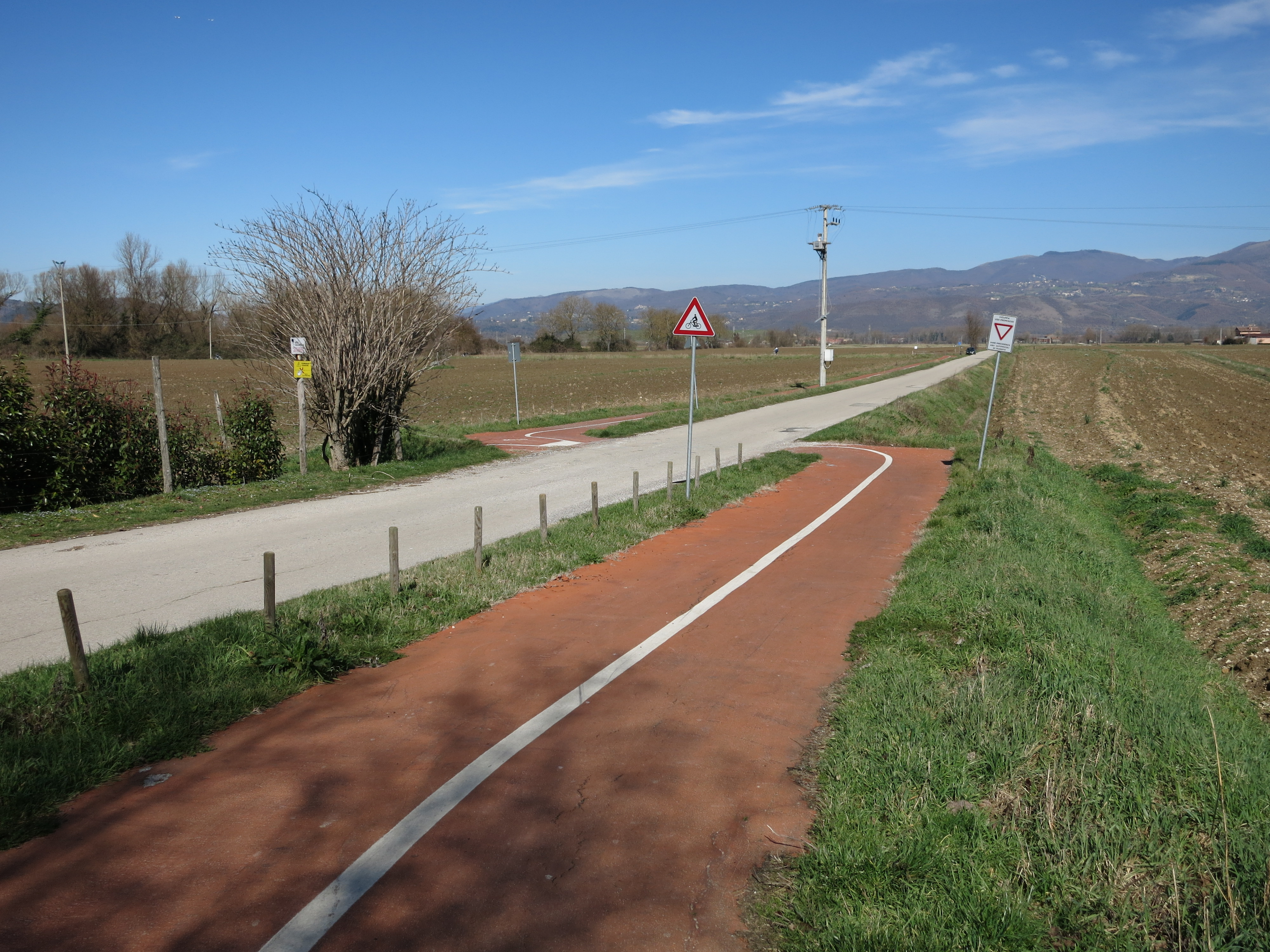 Ciclovia della Conca Reatina, bikeway in the province of Rieti (Lazio, Italy)